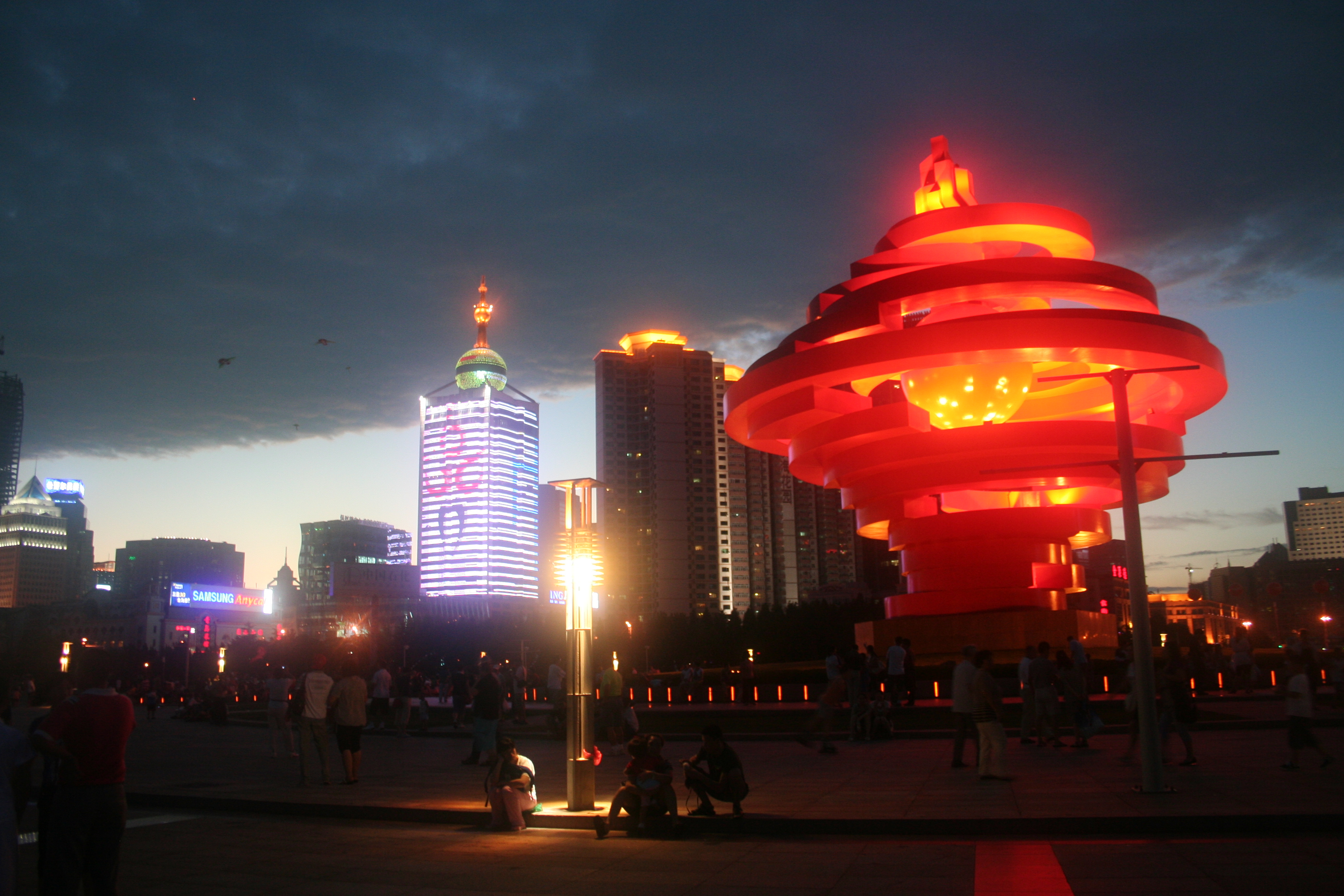 May Fourth Square during twilight, QingDao, Shandong Province, China.